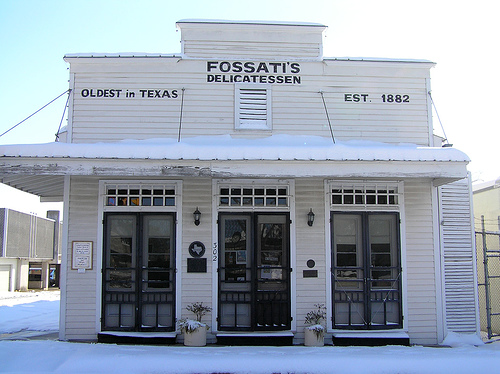 Front of Fossati's Delicatessen, located at 302 S. Main Street in downtown Victoria, Texas, United States. Built in 1900, it is the home of Texas' oldest delicatessen, and it is listed on the National Register of Historic Places.